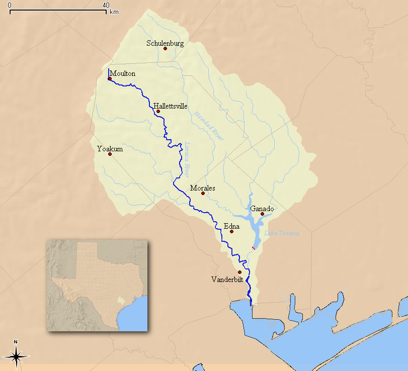 This is a map of the Lavaca River watershed in Texas. I, Kuru, created from data originating at the USGS.